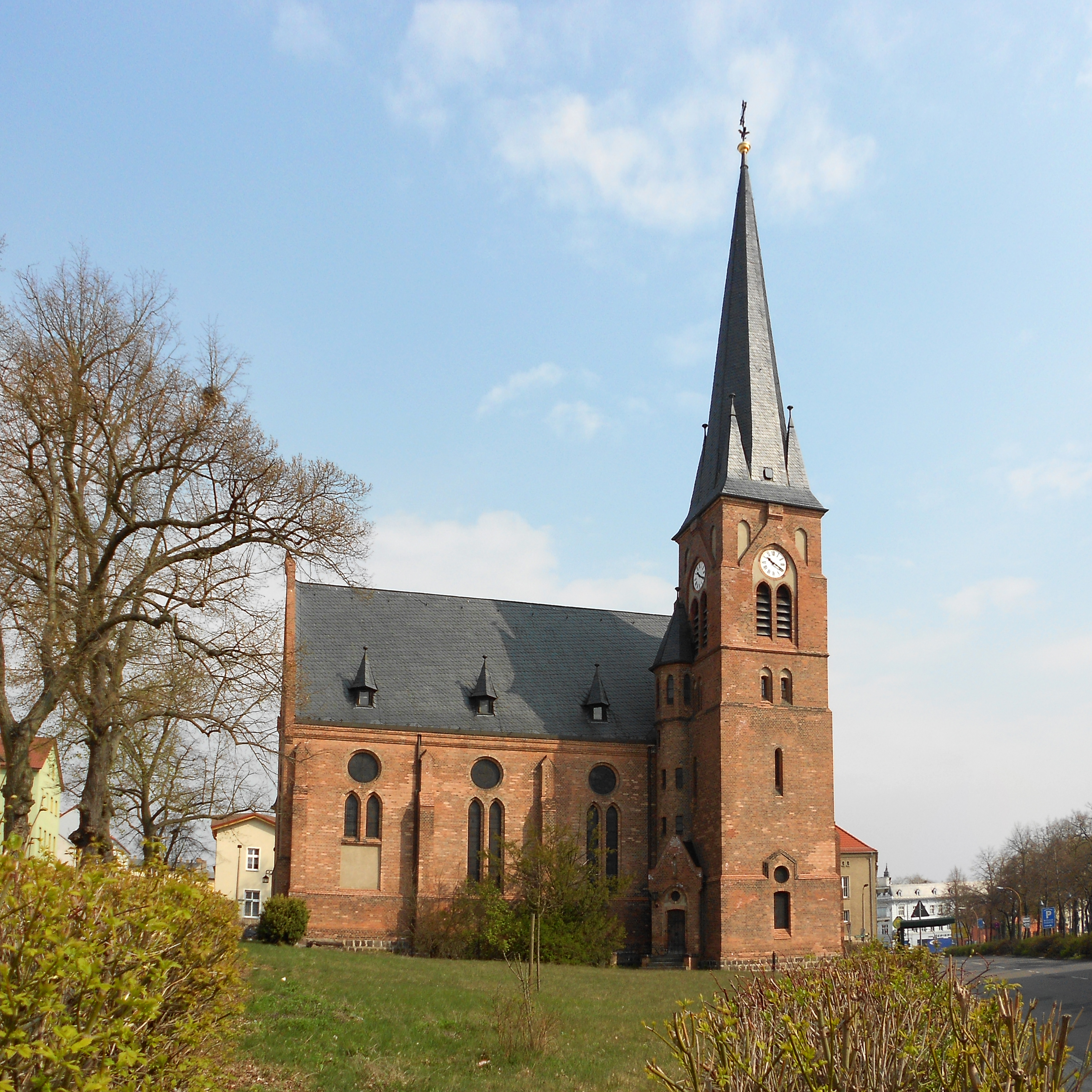 St. John's Church in Eberswalde, Barnim district, Brandenburg state, Germany